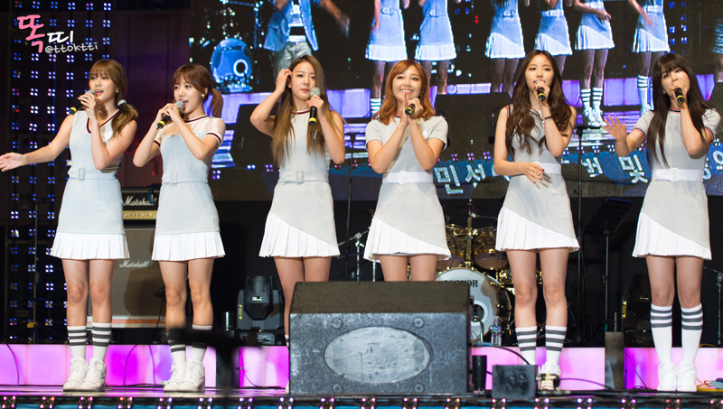 Apink at Unison Festival, 5 September 2014. Left to right: Hayoung, Namjoo, Bomi, Eunji, Naeun and Chorong